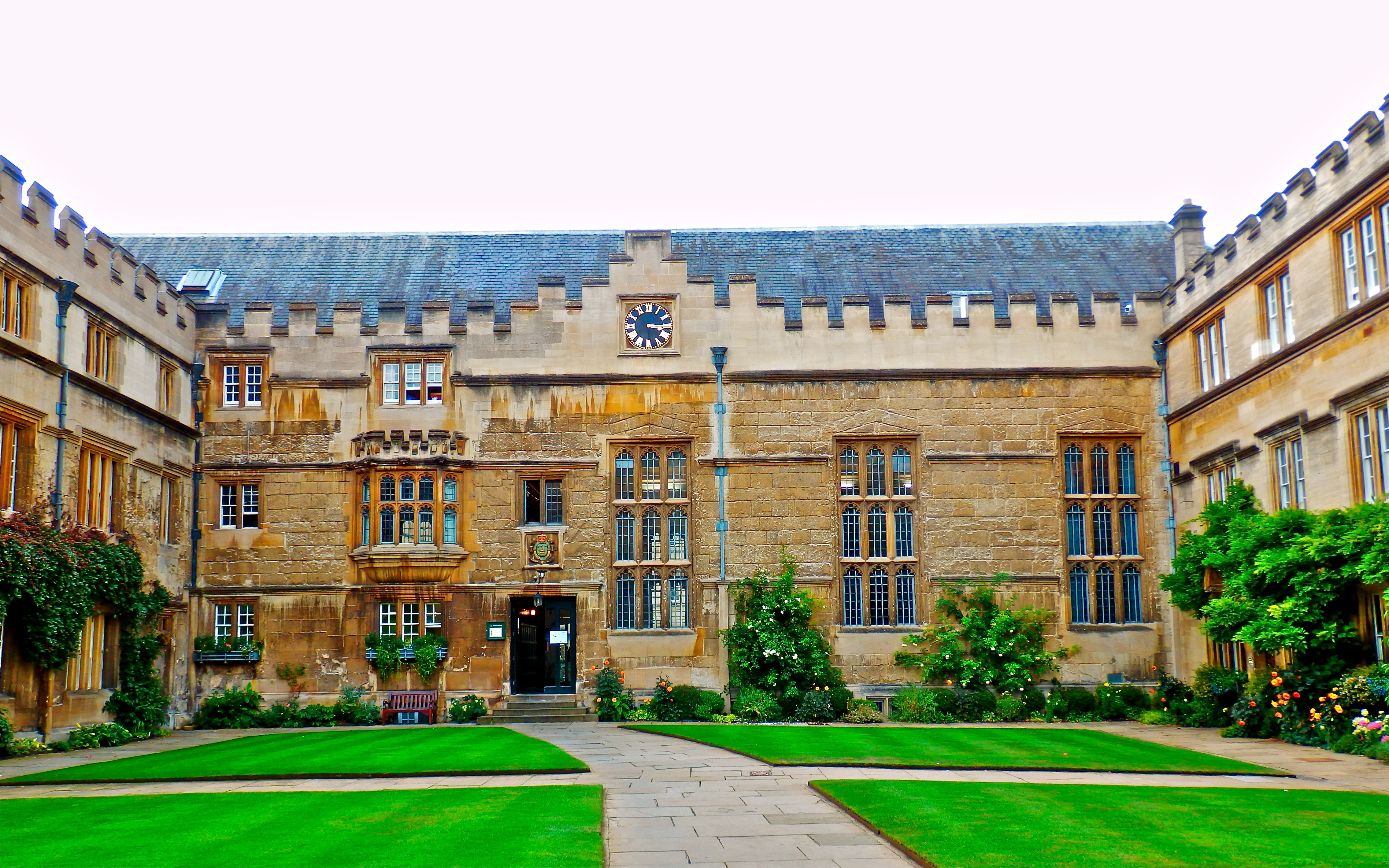 Location: First Quadrangle, Jesus College, University of Oxford, England. The college, or Jesus College in the University of Oxford of Queen Elizabeth's Foundation to give it it's full name, was founded by Elizabeth I on 27 June 1571 for the education of clergy, although a broad range of secular subjects are now studied by students. Here in the first quad, buildings date back to the 16th and early 17th centuries